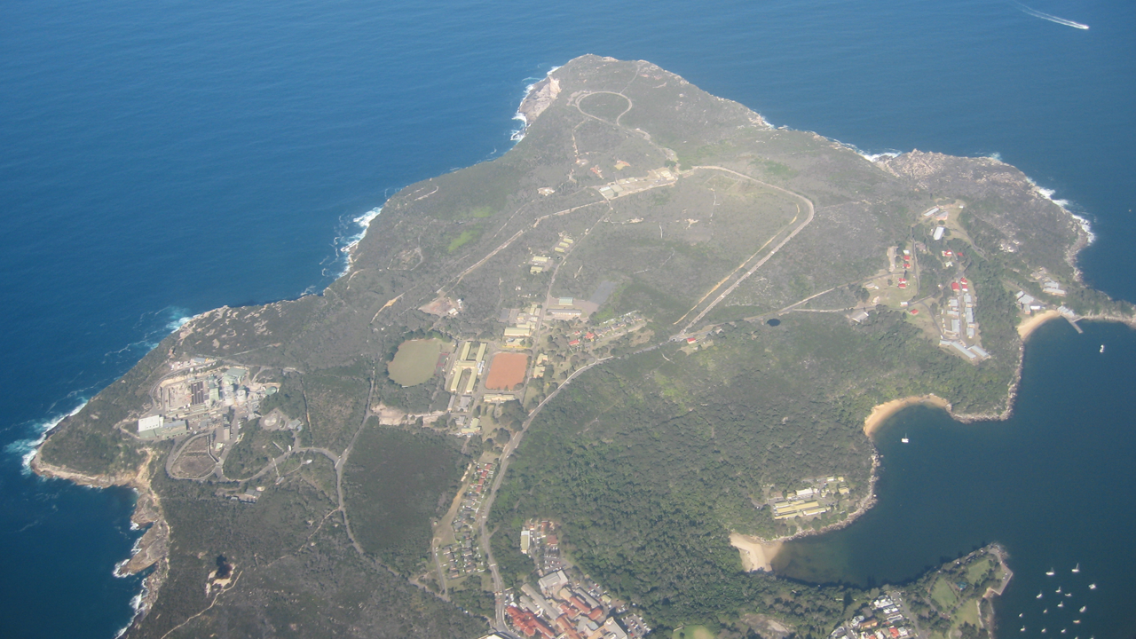 Aerial photograph of North Head (Sydney, Australia).